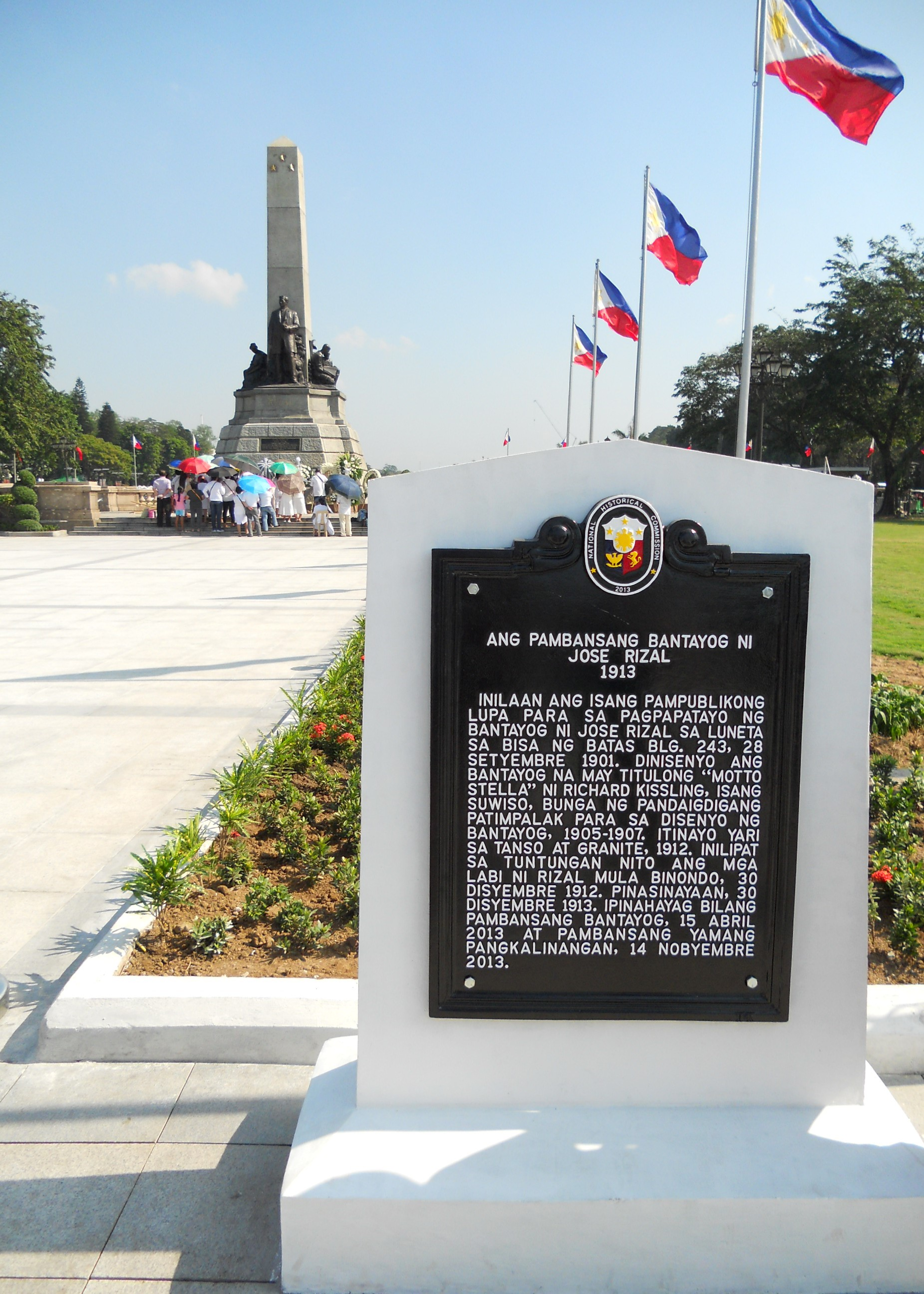 RizalMonument HistoricalMarker Manila